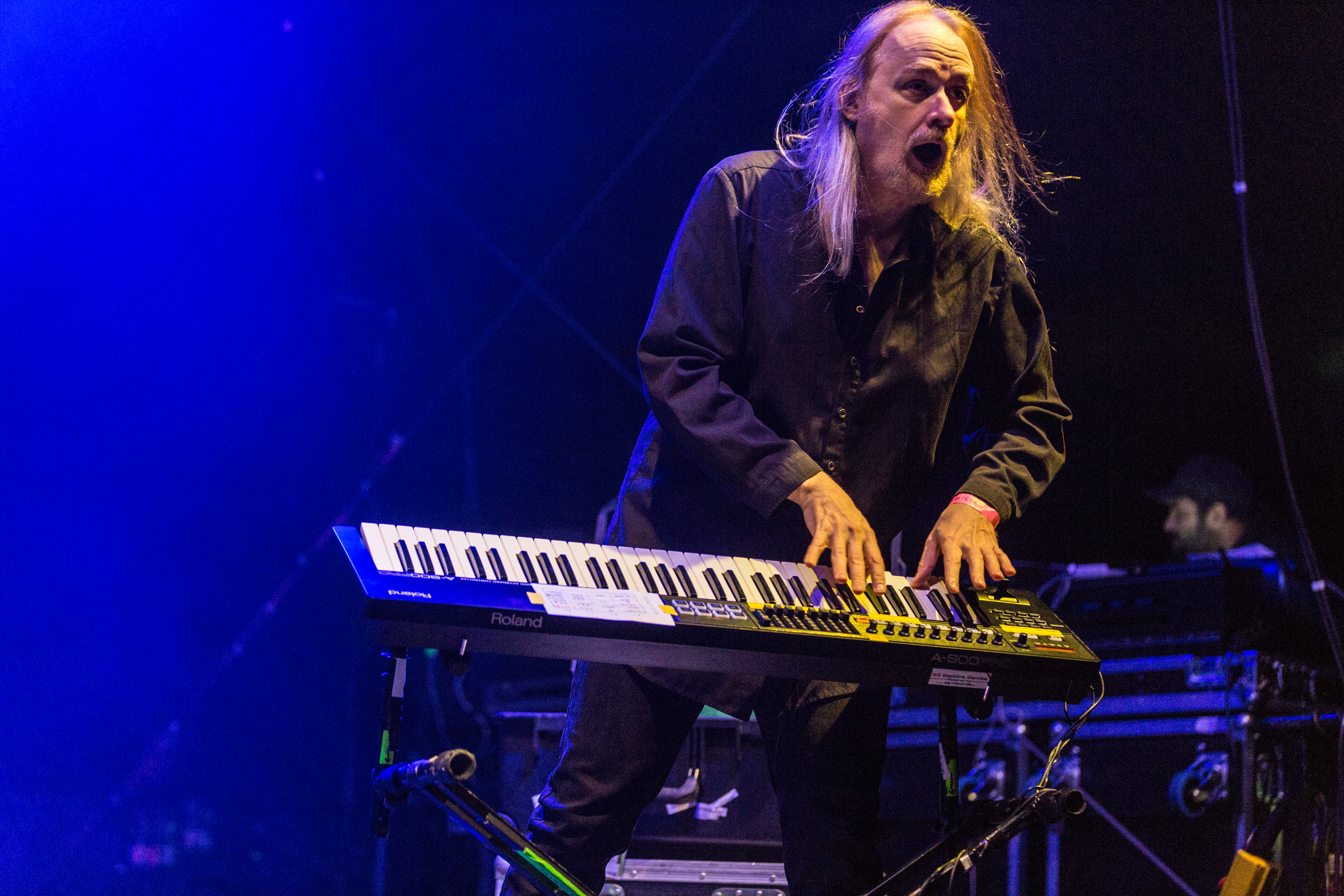 The Finnish power metal band Stratovarius at the Metal Frenzy 2017 in Gardelegen/Germany.